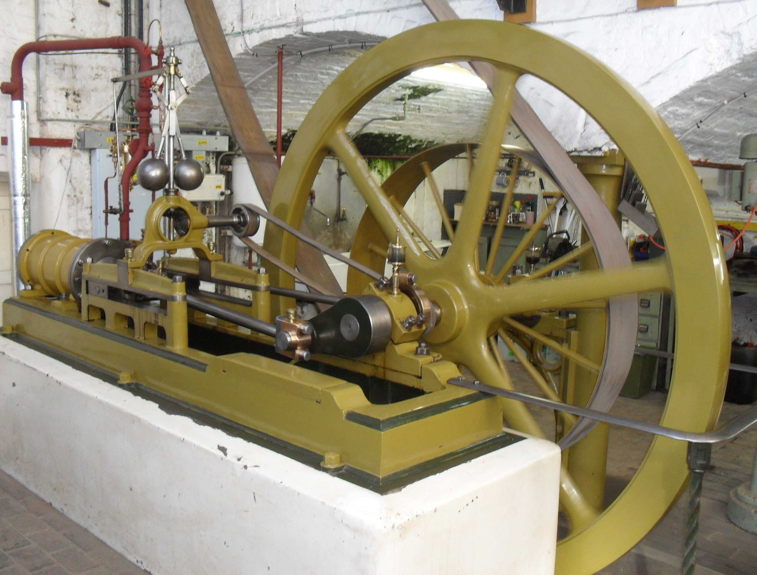 Mid 19th-century steam engine in the 1875-built workshop at the former Goldstone Pumping Station (now British Engineerium), The Droveway, West Blatchington, Hove, City of Brighton and Hove, England.